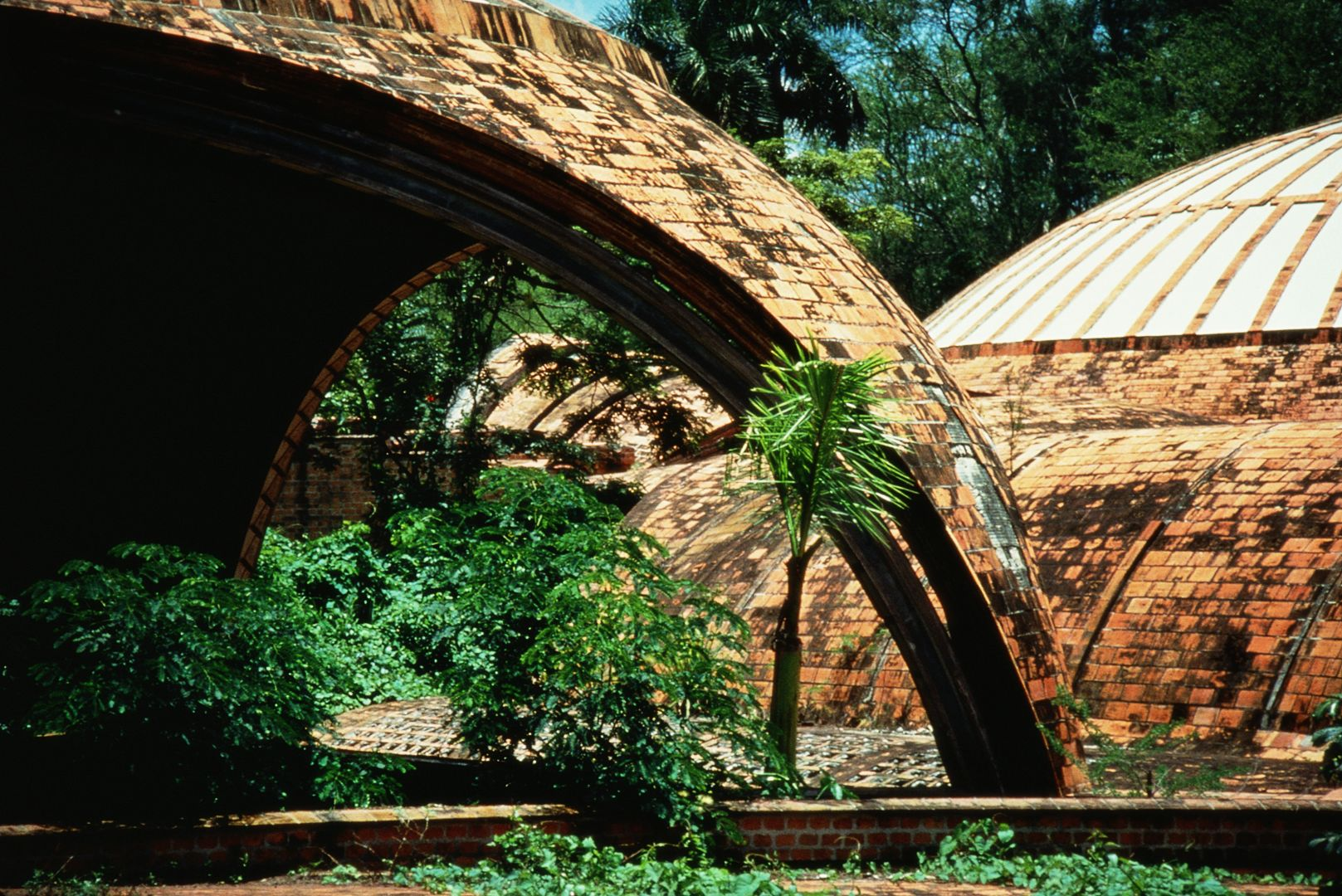 Photograph of architect Vittorio Garatti's school of ballet, part of Cuba's National Art Schools. From the top of the golf course’s ravine, one looks down upon the ballet school complex, nestled into the descending gorge. The plan of the school is articulated by a cluster of domed volumes, connected by an organic layering of Catalan vaults that follow a winding path. There are at least five ways to enter the complex. The most dramatic entrance starts at the top of the ravine with a simple path bisected by a notch to carry rainwater. As one proceeds, the terra cotta cupolas, articulating the major programmatic spaces, emerge floating over lush growth. The path then descends down into the winding subterranean passage that links the classrooms and showers, three dance pavilions, administration pavilions, library and the Pantheon-like space of the performance theater. The path also leads up onto its roofs which are an integral part of Garatti's paseo arquitectonico. The essence of the design is not found in the plan but in the spatial experience of the school's choreographed volumes that move with the descending ravine.